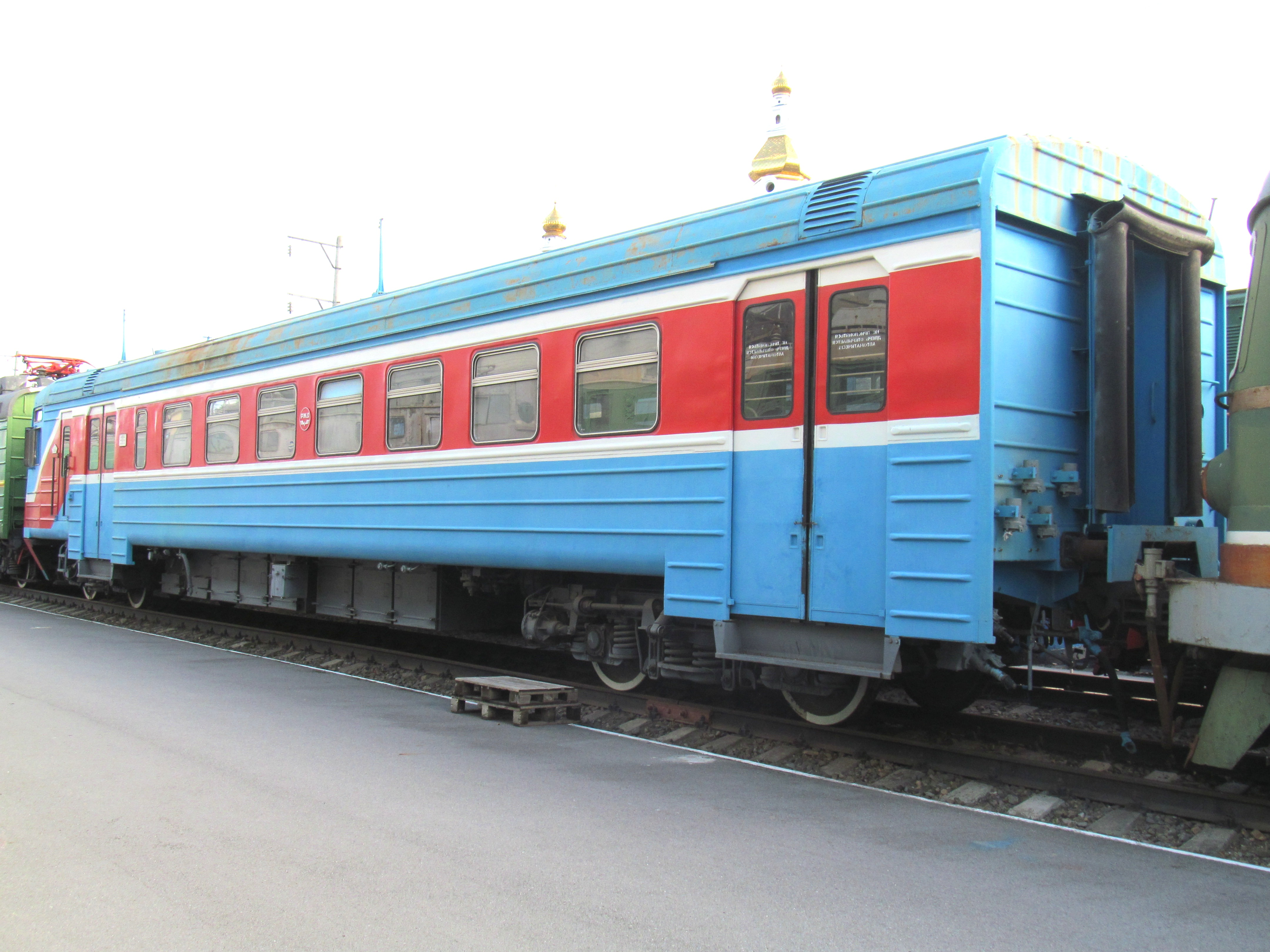 EN3-001 EMU control car (EN3-001.05) in Rostov Museum of railway equipment